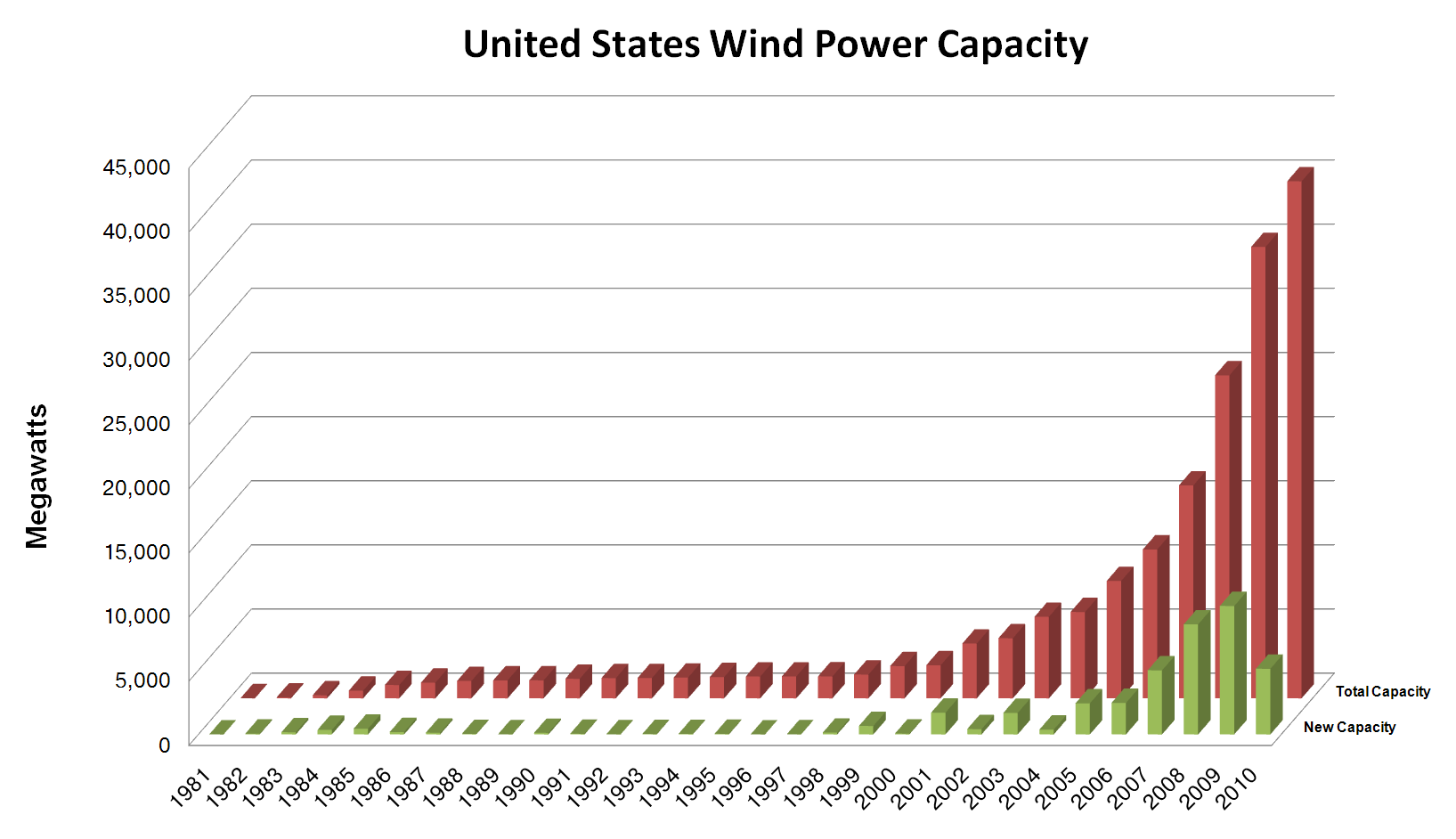 Bar graph of the wind power generation in the United States.